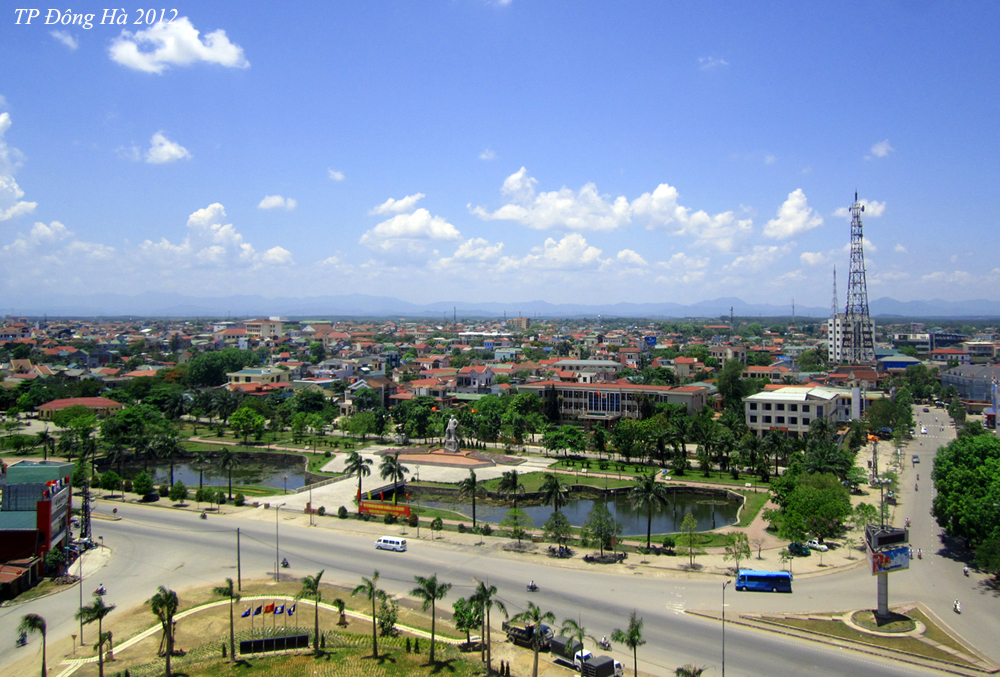 Scenery of Dong Ha City